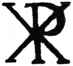 Typographic ornament from: Vita del glorioso martire s. Secondo (...).